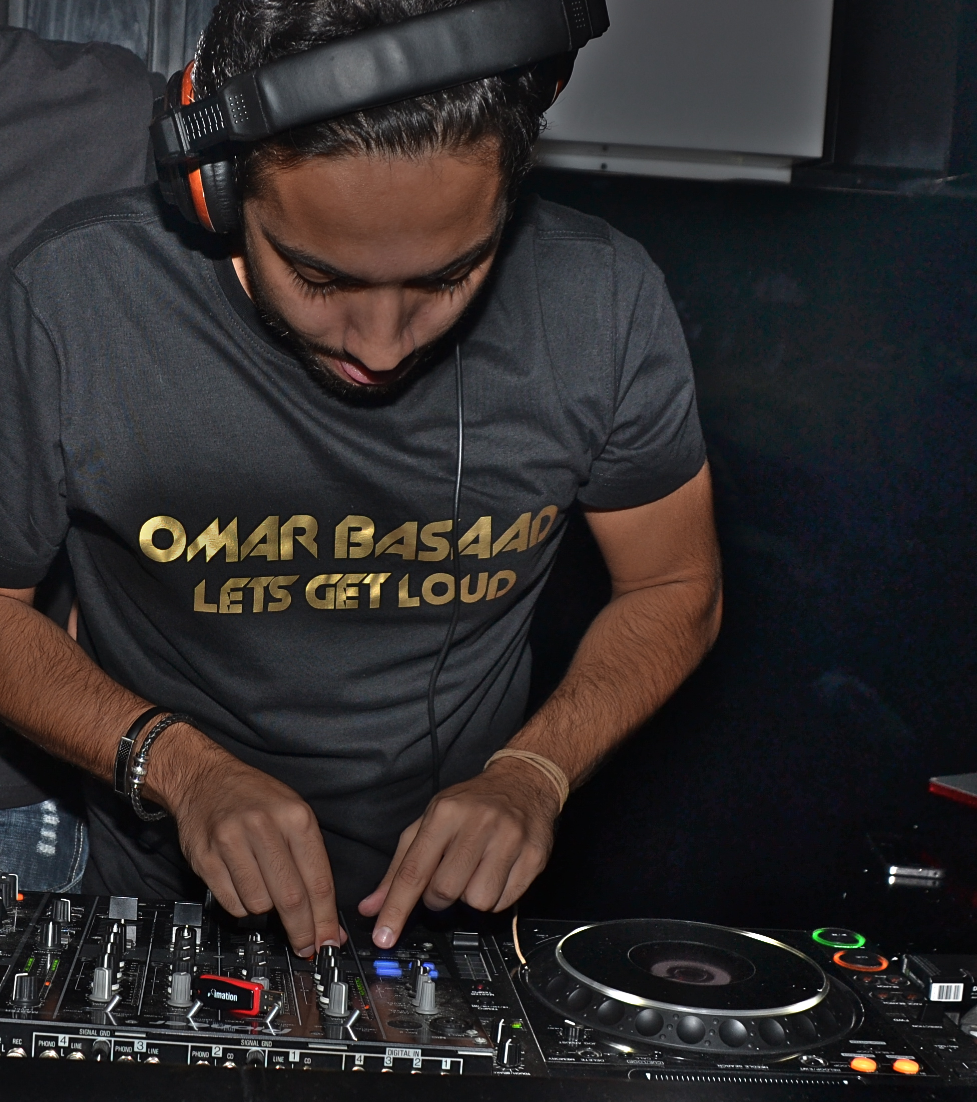 Omar Basaad playing a live DJ set in Dubai